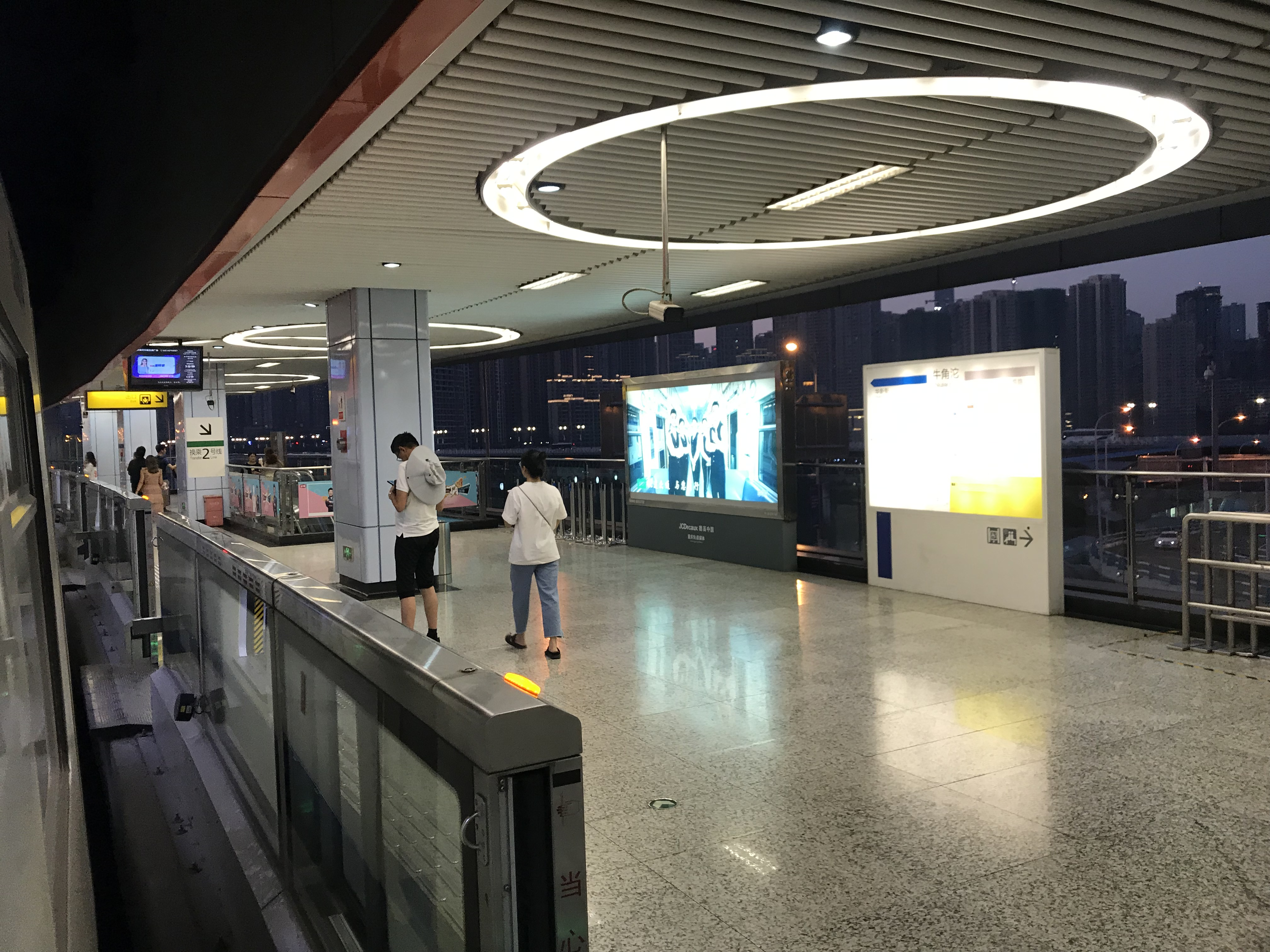 201908 Northbound Platform of L3 Niujiaotuo Station